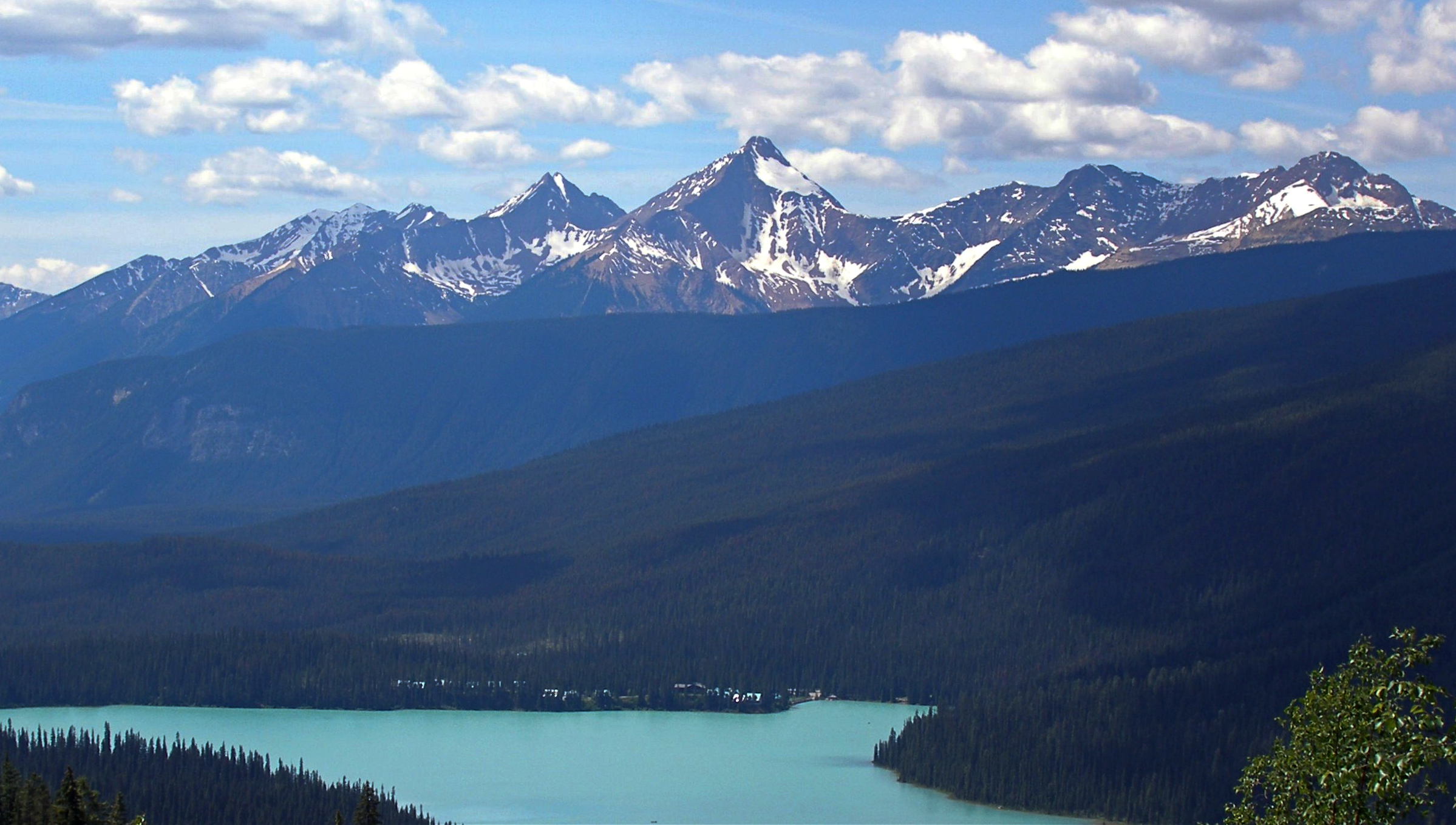 Van Horne Range seen from Emerald Lake. Mount King centered. BC, Canada